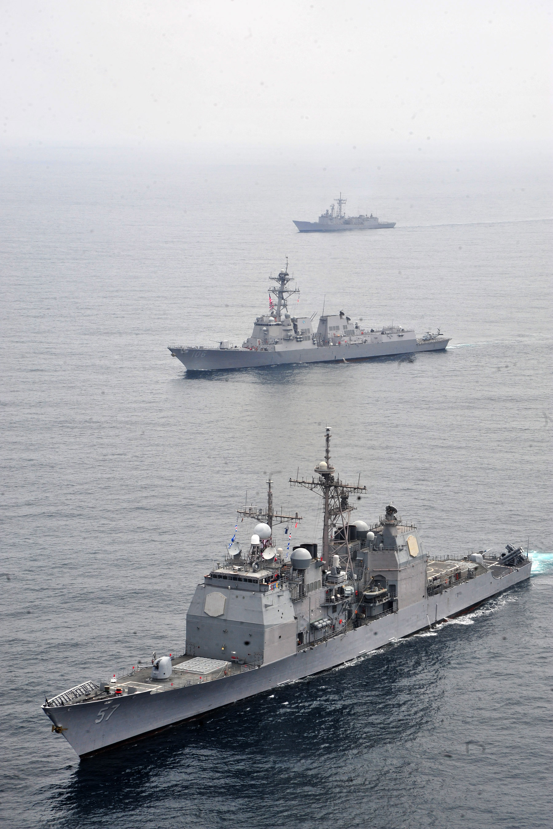 PACIFIC OCEAN (Sept. 1, 2010) The guided-missile cruiser USS Lake Champlain (CG 57), the guided-missile destroyer USS Stockdale (DDG 106), and the guided-missile frigate USS Rentz (FFG 46) are underway off the coast of Southern California. (U.S. Navy photo by Mass Communication Specialist 2nd Class Adrian White/Released)